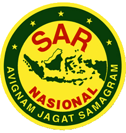 Logo of National Search and Rescue Agency of Indonesia (BASARNAS)